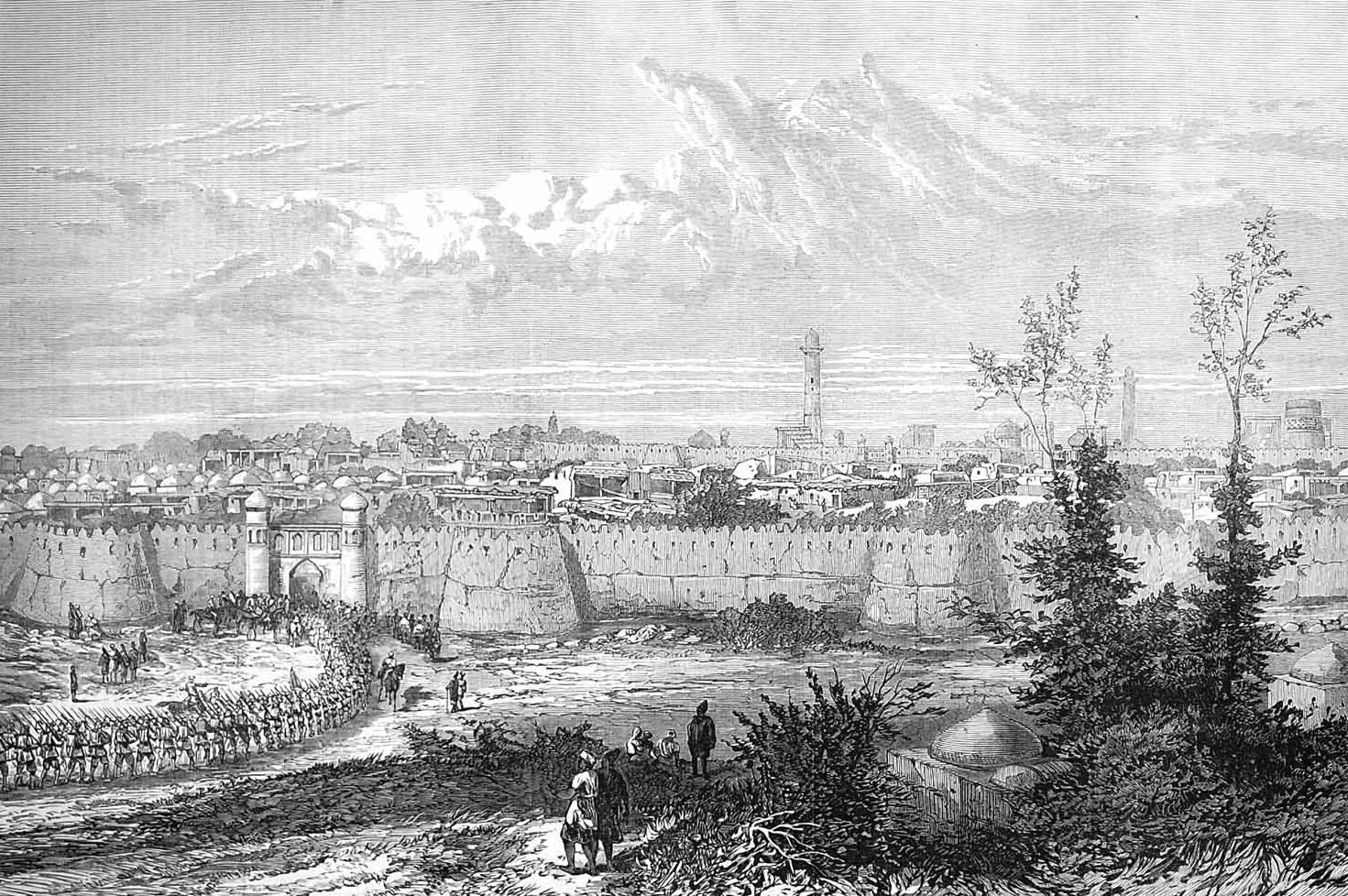 Engraved from the The Illustrated London News that shows russian soldiers in Khiva